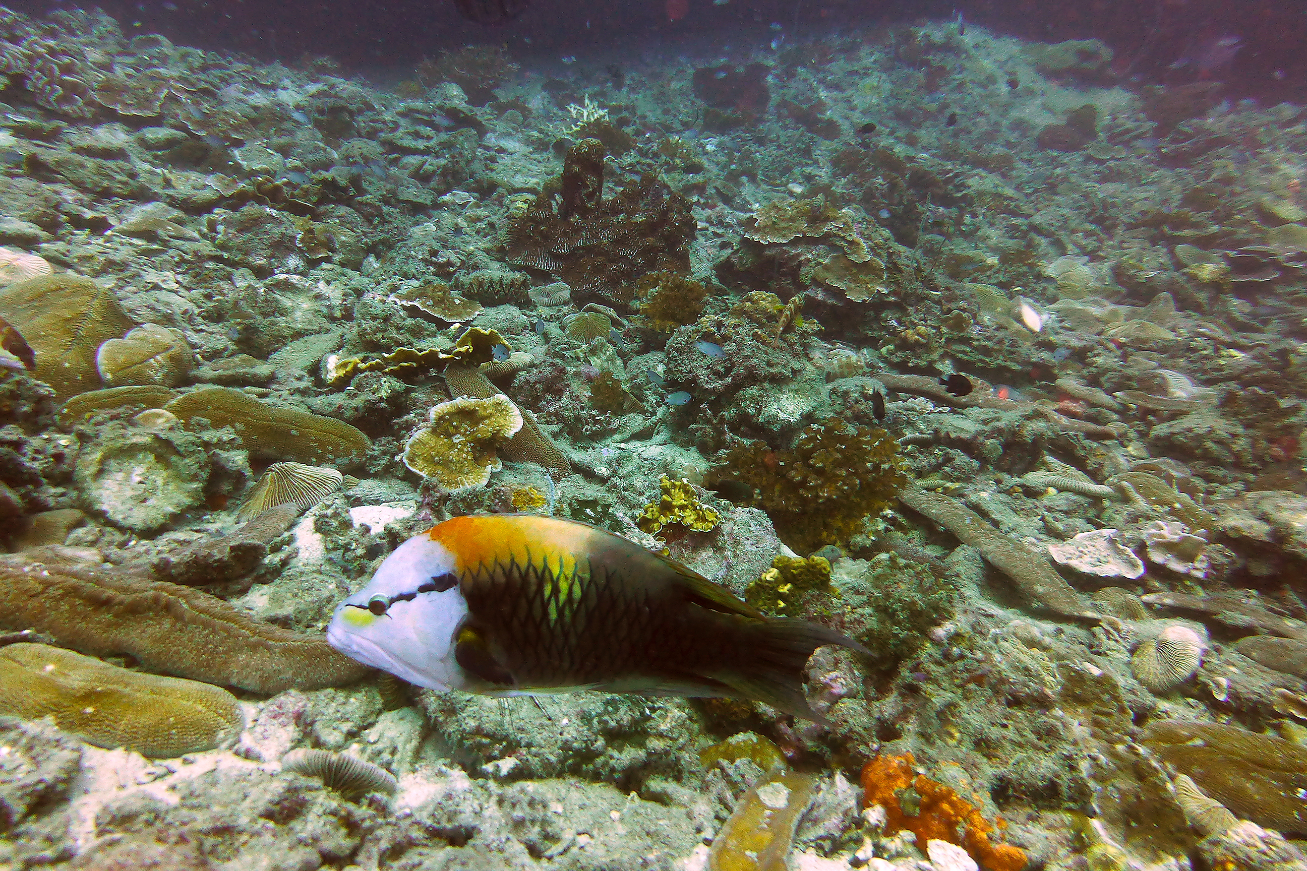 Underwater photographs of plants and animals from diving sites around Ko Tao, Thailand.